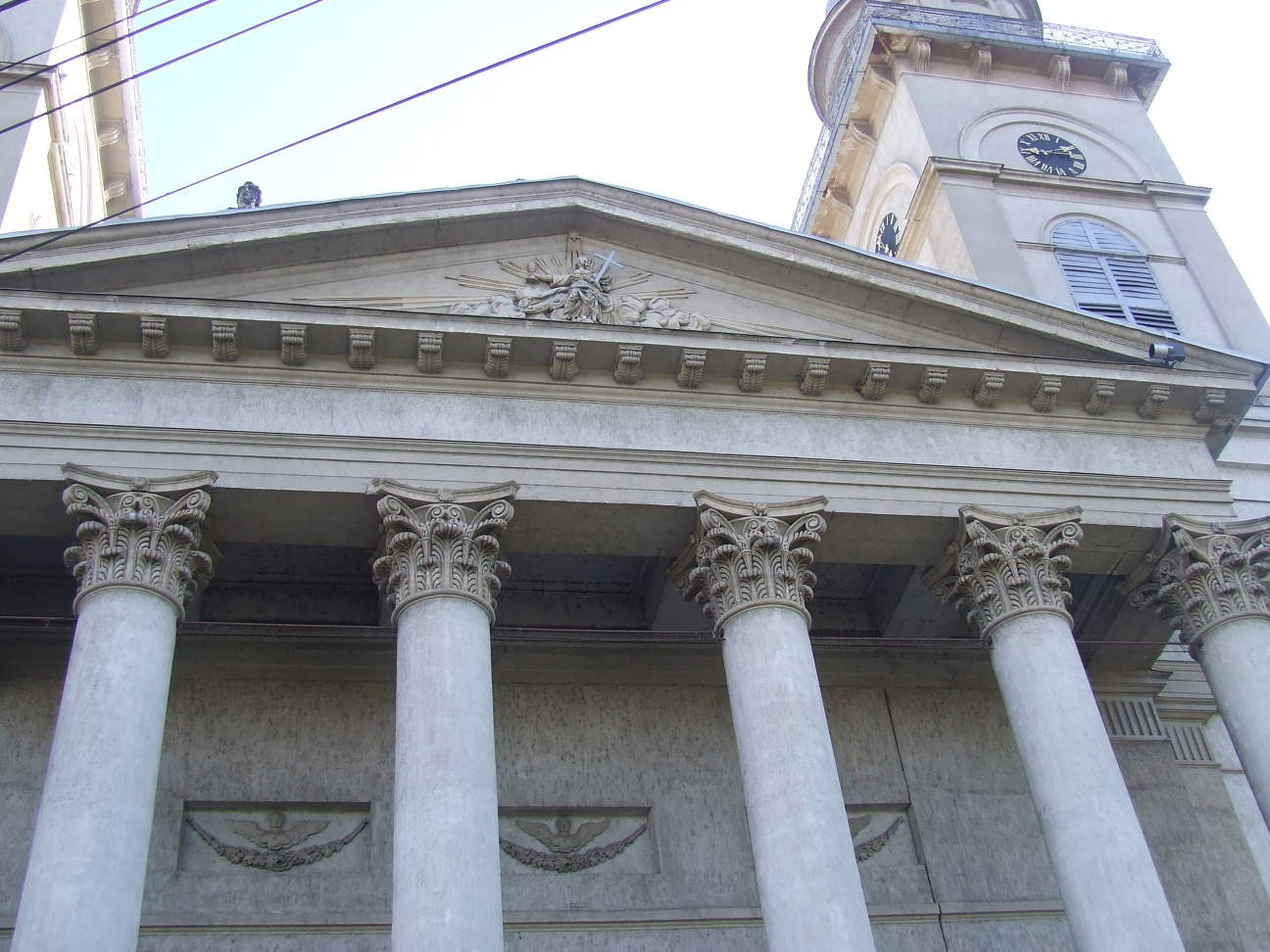 Roman Catholic Cathedral in Satu Mare, Romania